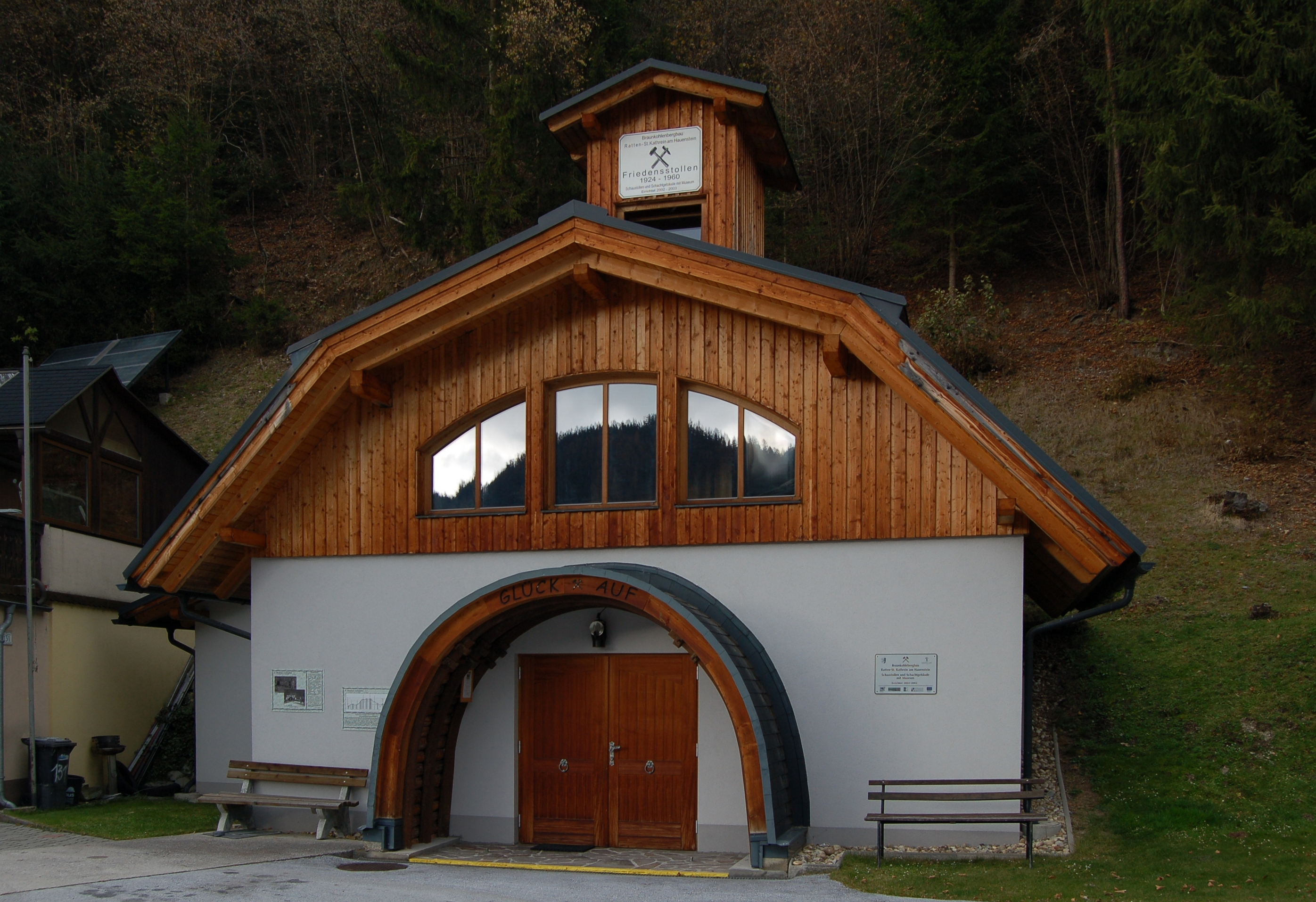 Former coal mine, now museum in Ratten, Styria, Austria.